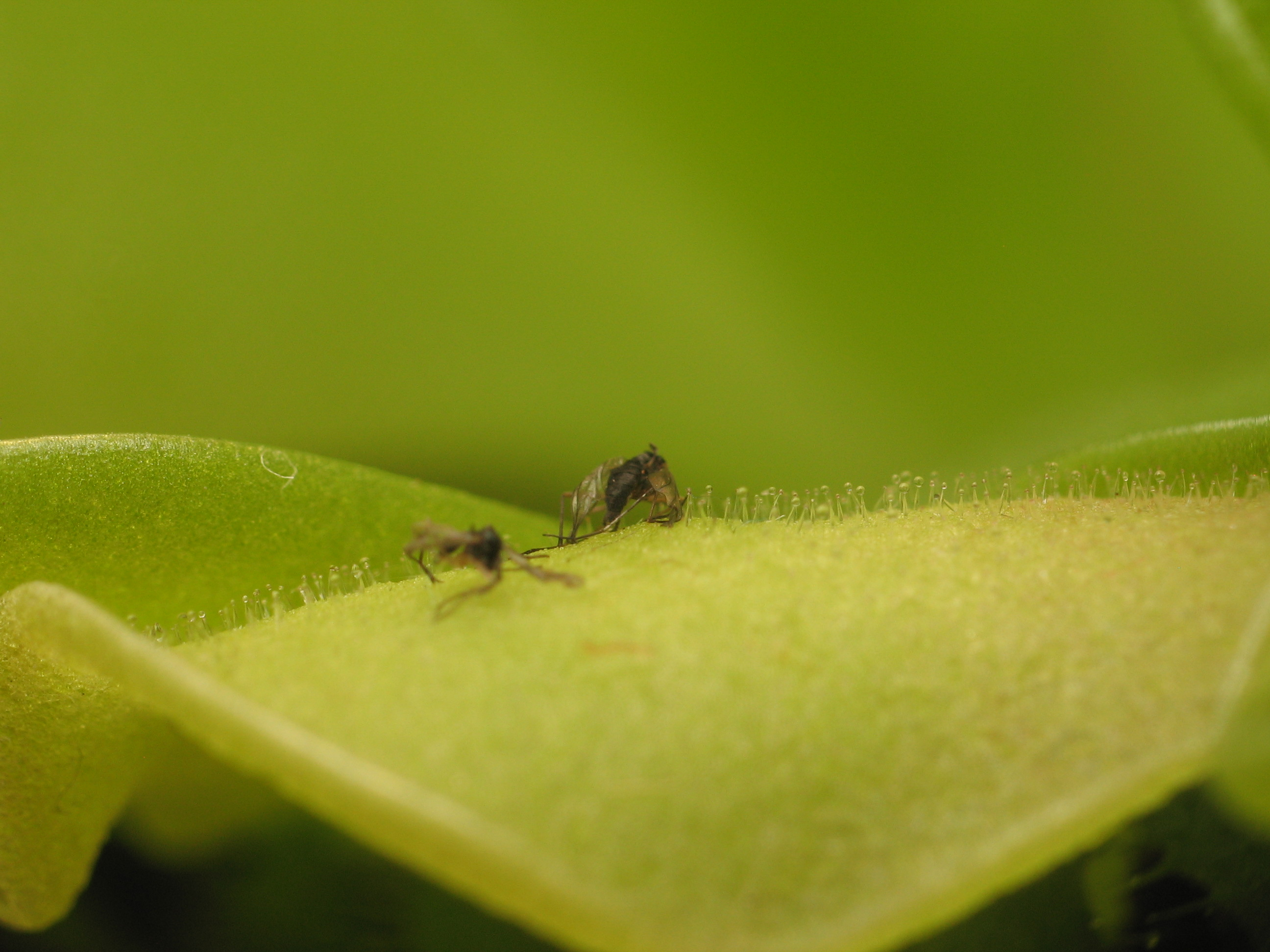 Pinguicula with prey. Glands are clearly visible.